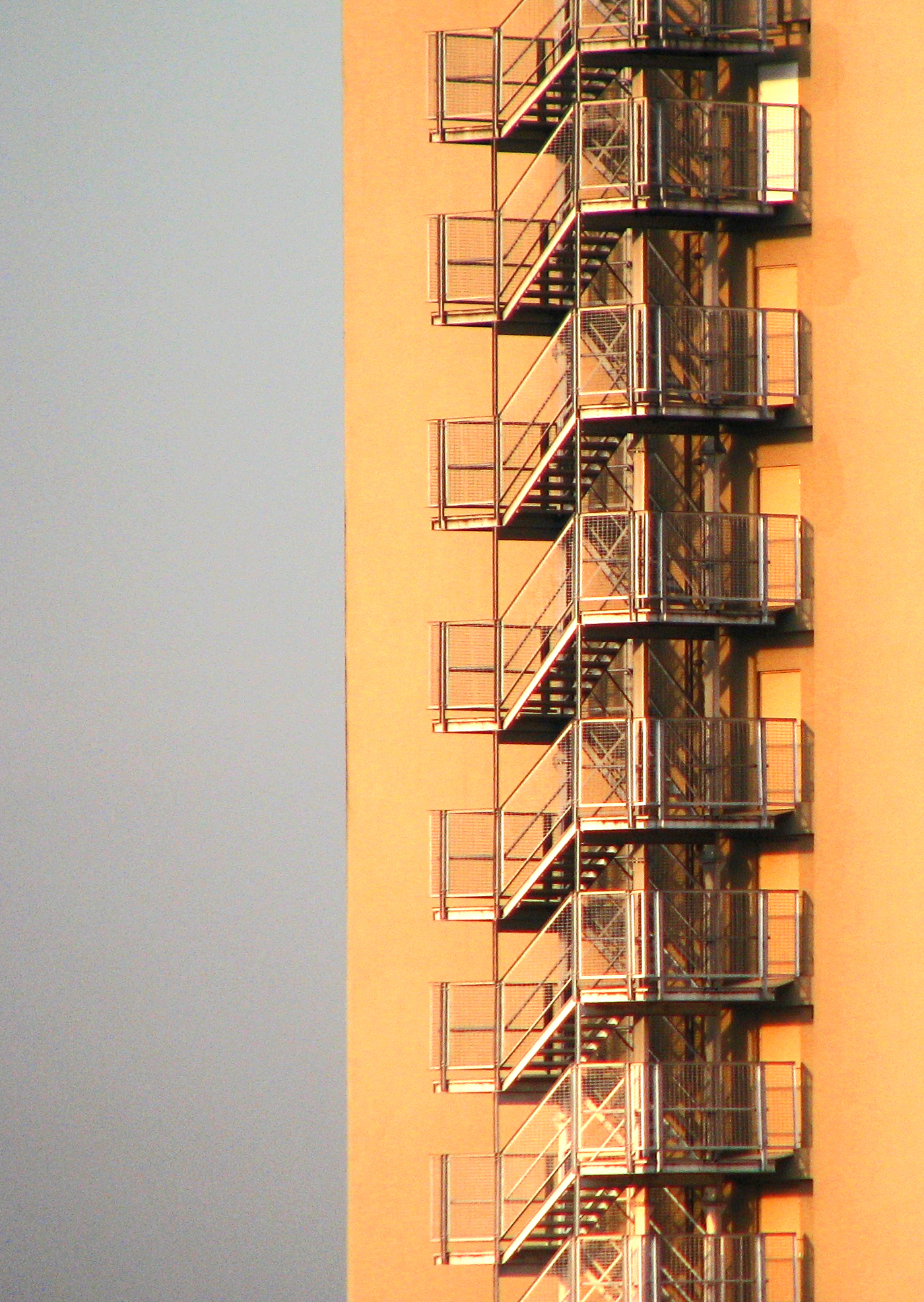 Fire escape at Mirante do Vale building located in São Paulo City, Brazil. Another version of the same image can be found at Flickr.